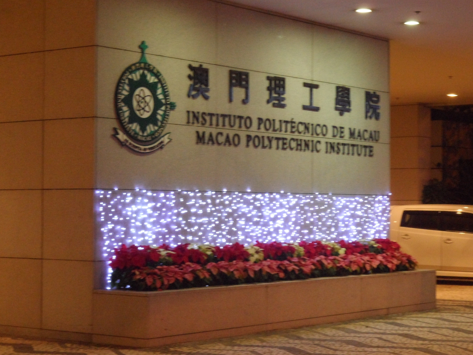 Macau Polytechnic Institute, Cathedral Parish, Macau, China